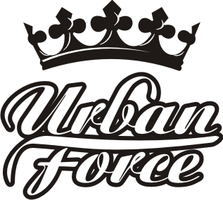 Official logo of Urban Force crew (Breakdance - Italy)